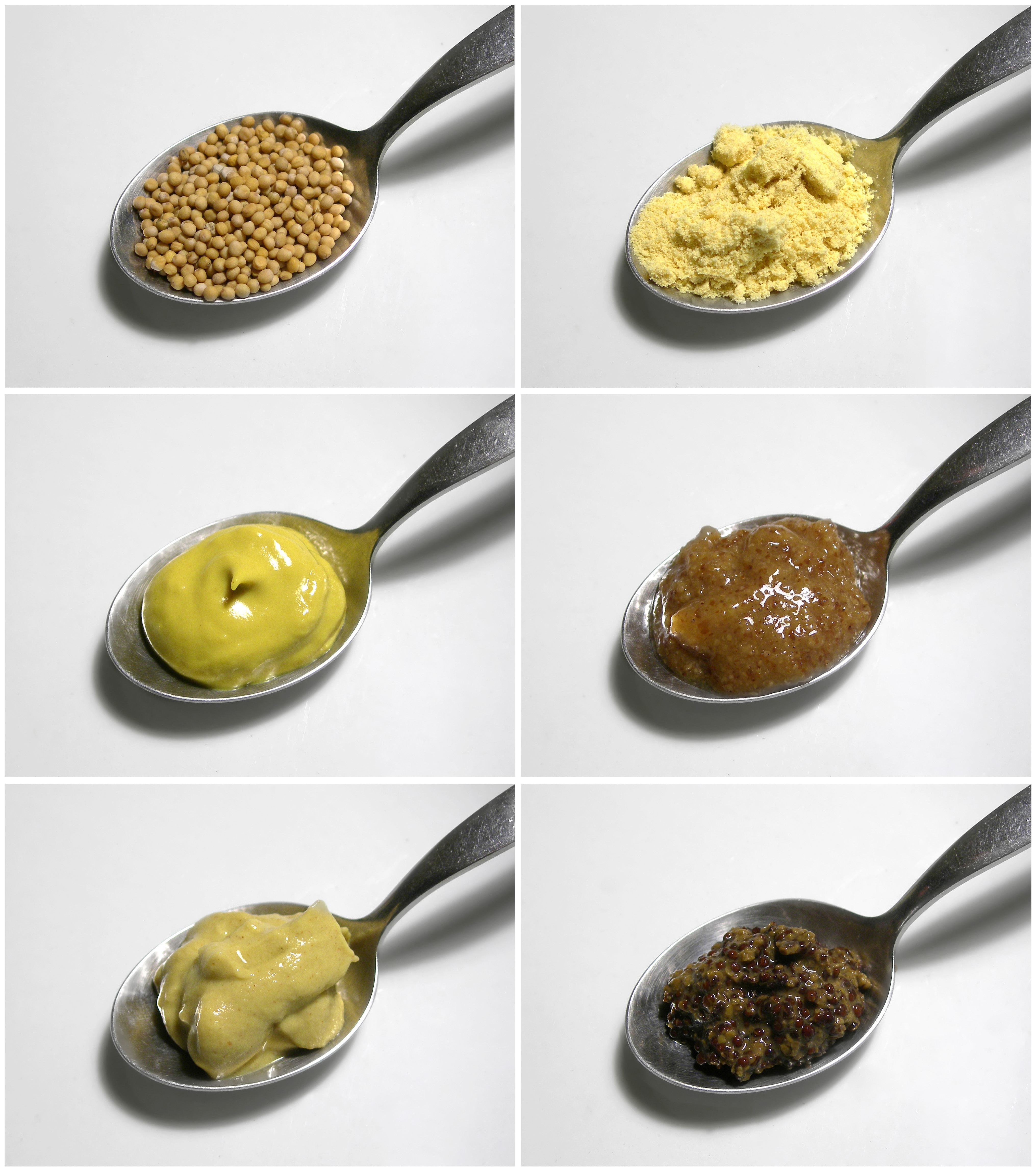 Collage of six mustard-related pictures: upper left: white mustard seeds upper right: white mustard, ground center left: simple table mustard, with turmeric coloring center right: Bavarian sweet mustard lower left: Dijon mustard lower right: Rough French mustard made mainly from black mustard seeds